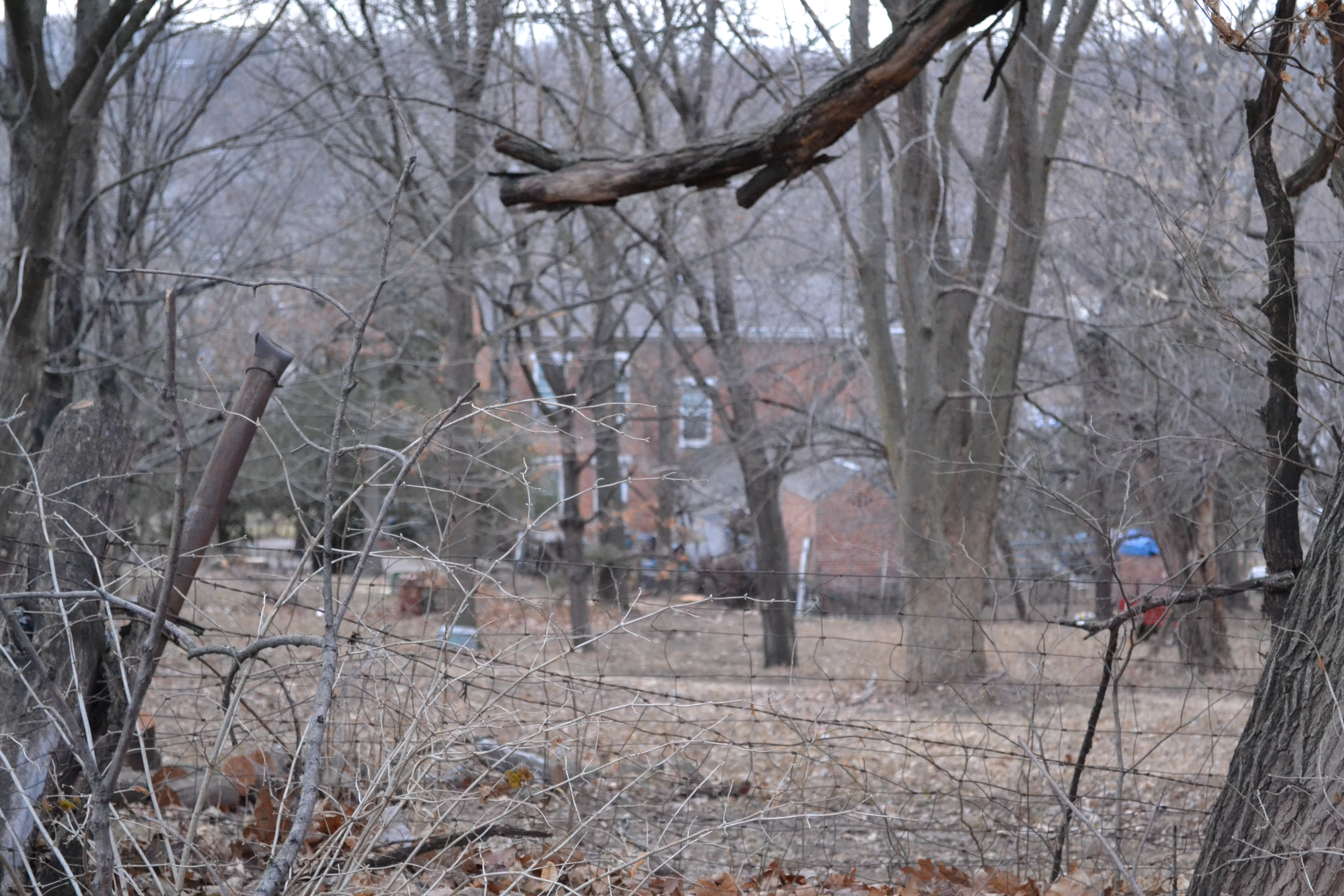 Maple Grove from afar, St. Joseph, Missouri. Listed on the National Register of Historic Places.